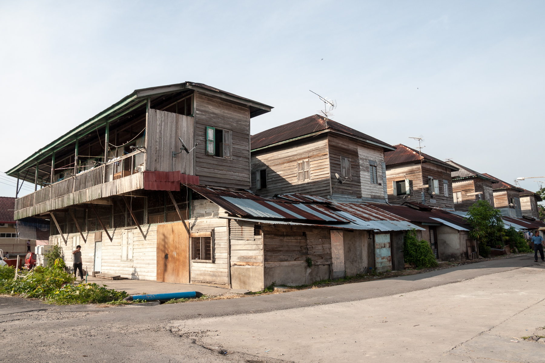 Kinarut, Sabah: Old shop row near the railway station